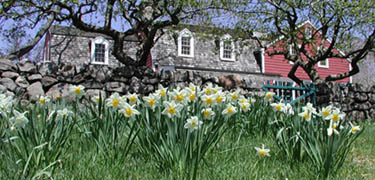 Picture of Weir Farm National Historic Site. (from )